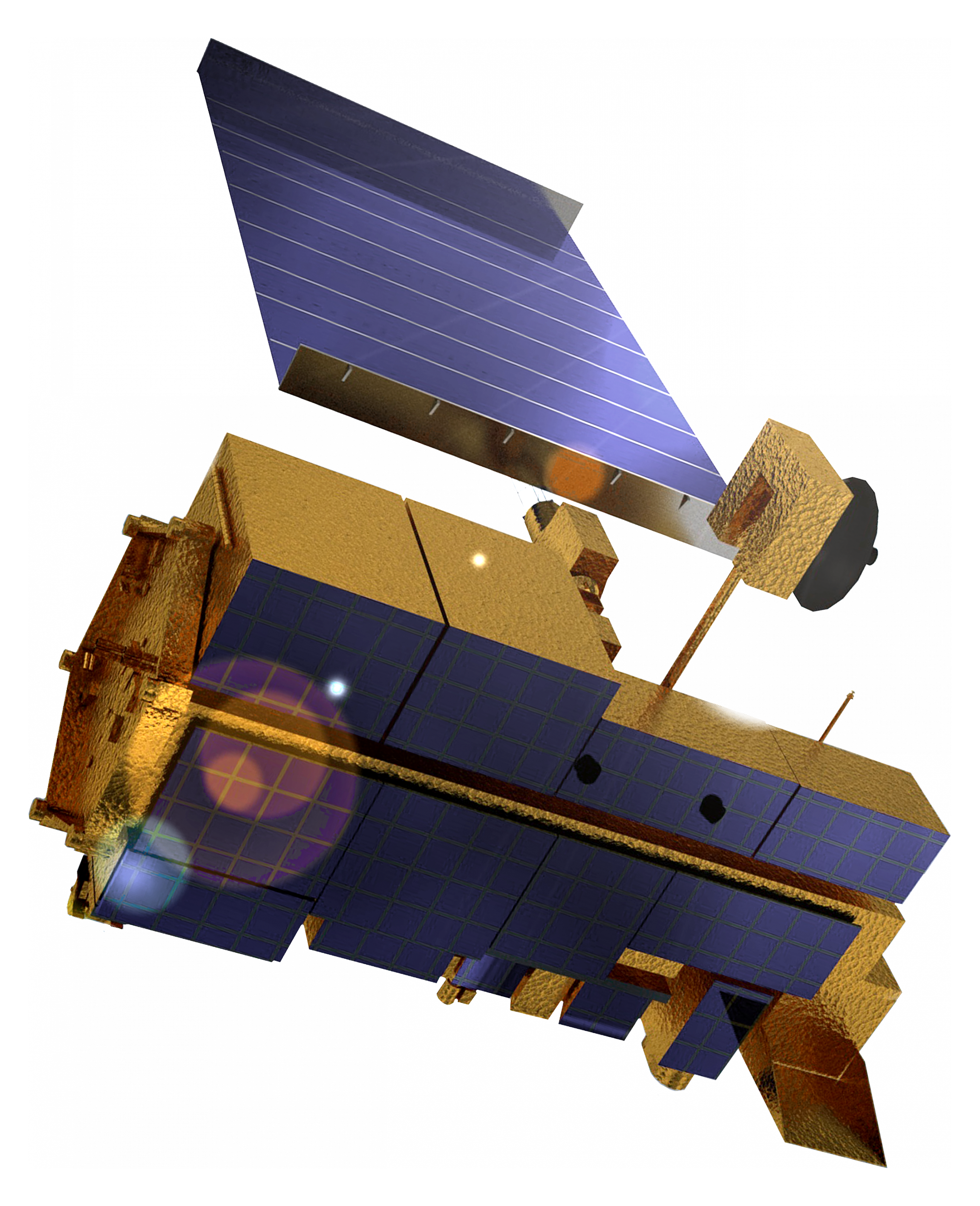 Image of the Terra spacecraft with transparent background.